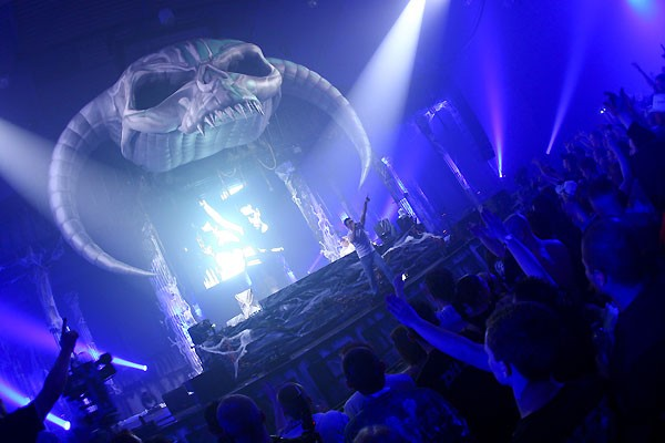 Masters of Hardcore - 15 Years